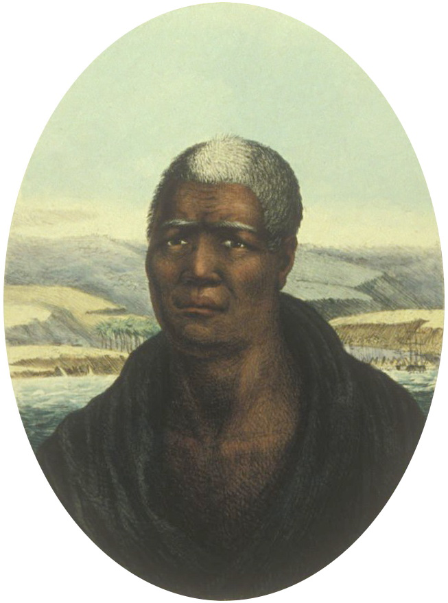 Tammeamea, roi des iles Sandwich [picture] / dess. et lith. par Choris. [Paris : Imprimerie Firmin Didot, 1822]. 1 print : lithograph, hand col.; oval image 20.8 x 15.4 cm. Pl. no. [38] of: Voyage pittoresque autour du monde /Louis Choris.